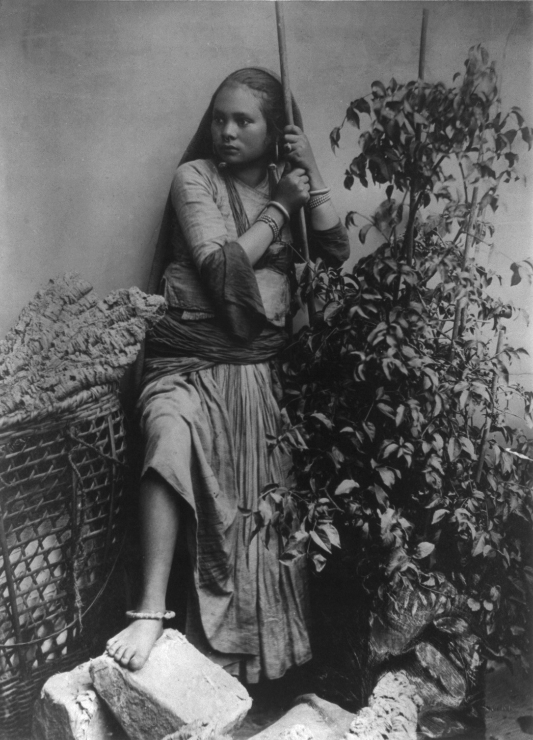 Coolie woman, Darjeeling, India.